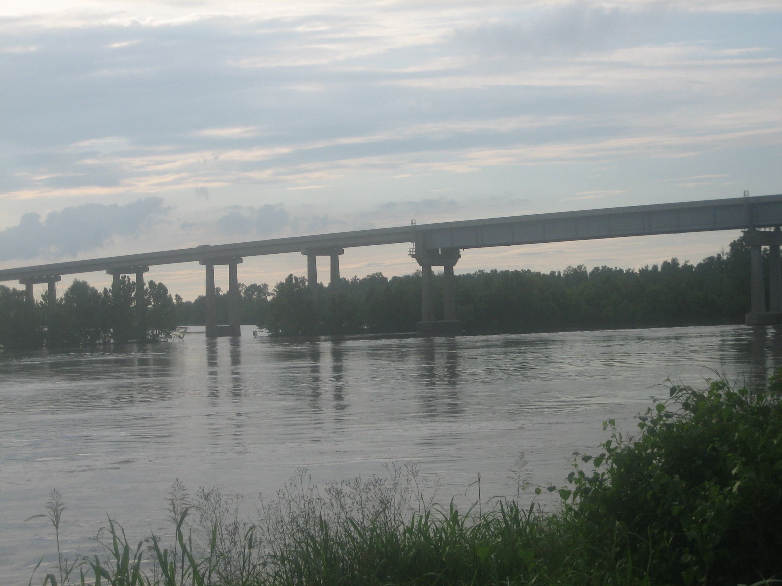 I took photo on May 24, 2009.Billy Hathorn (talk) 00:23, 30 May 2009 (UTC)